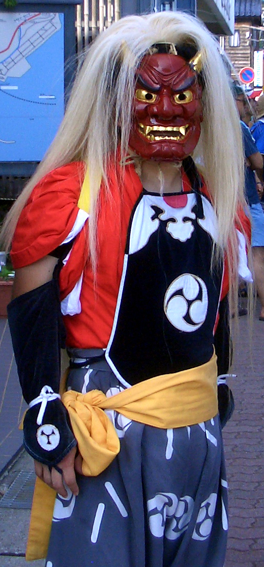 A picture of a Japanese dancer wearing the traditional "demon" costume of Sadogashima in Niigata Prefecture.